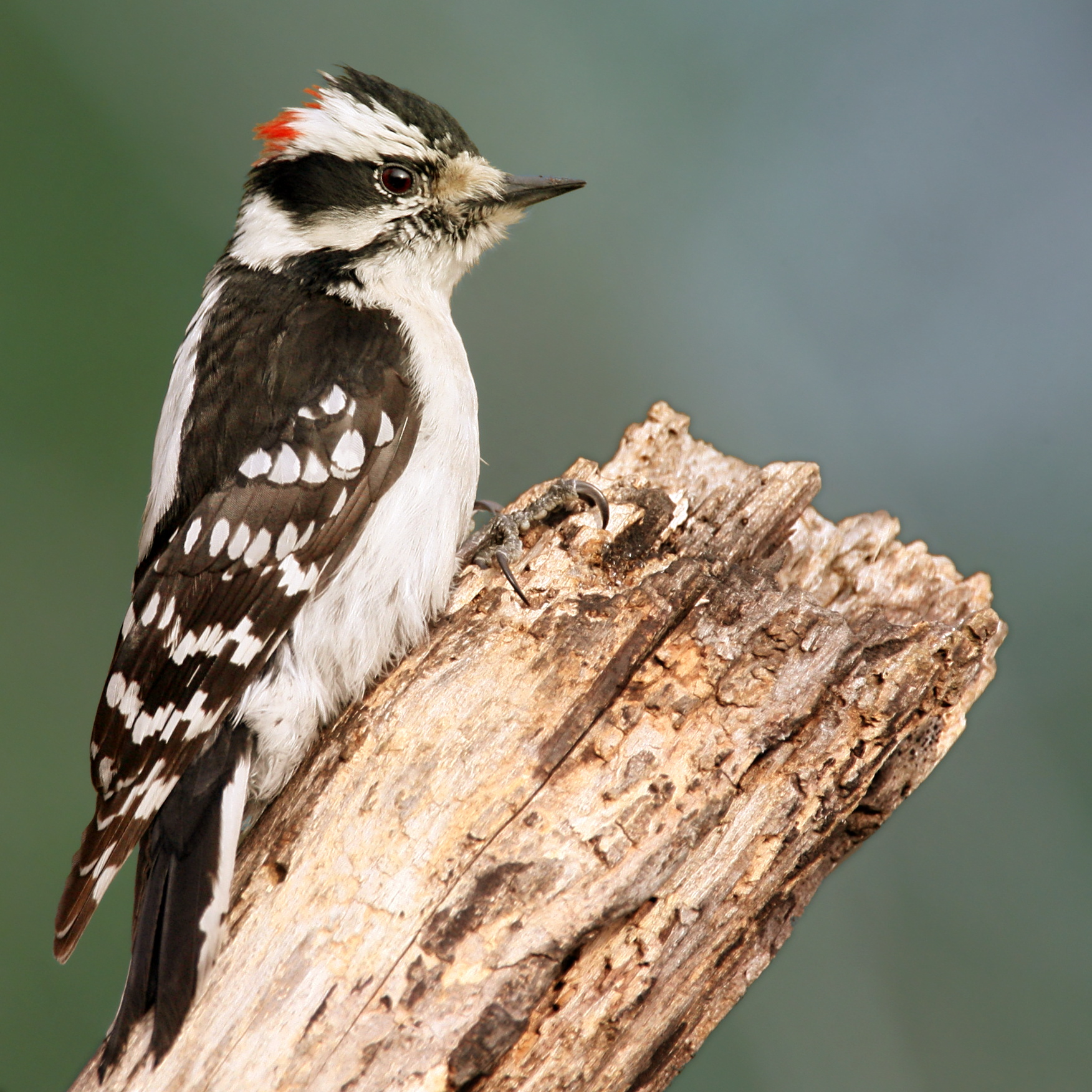 A male Downy Woodpecker, in Poquott, Long Island, New York, USA.